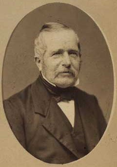 Sigvard Thomas Waldemar Rømeling (1809-1878), Danish colonel and courtier